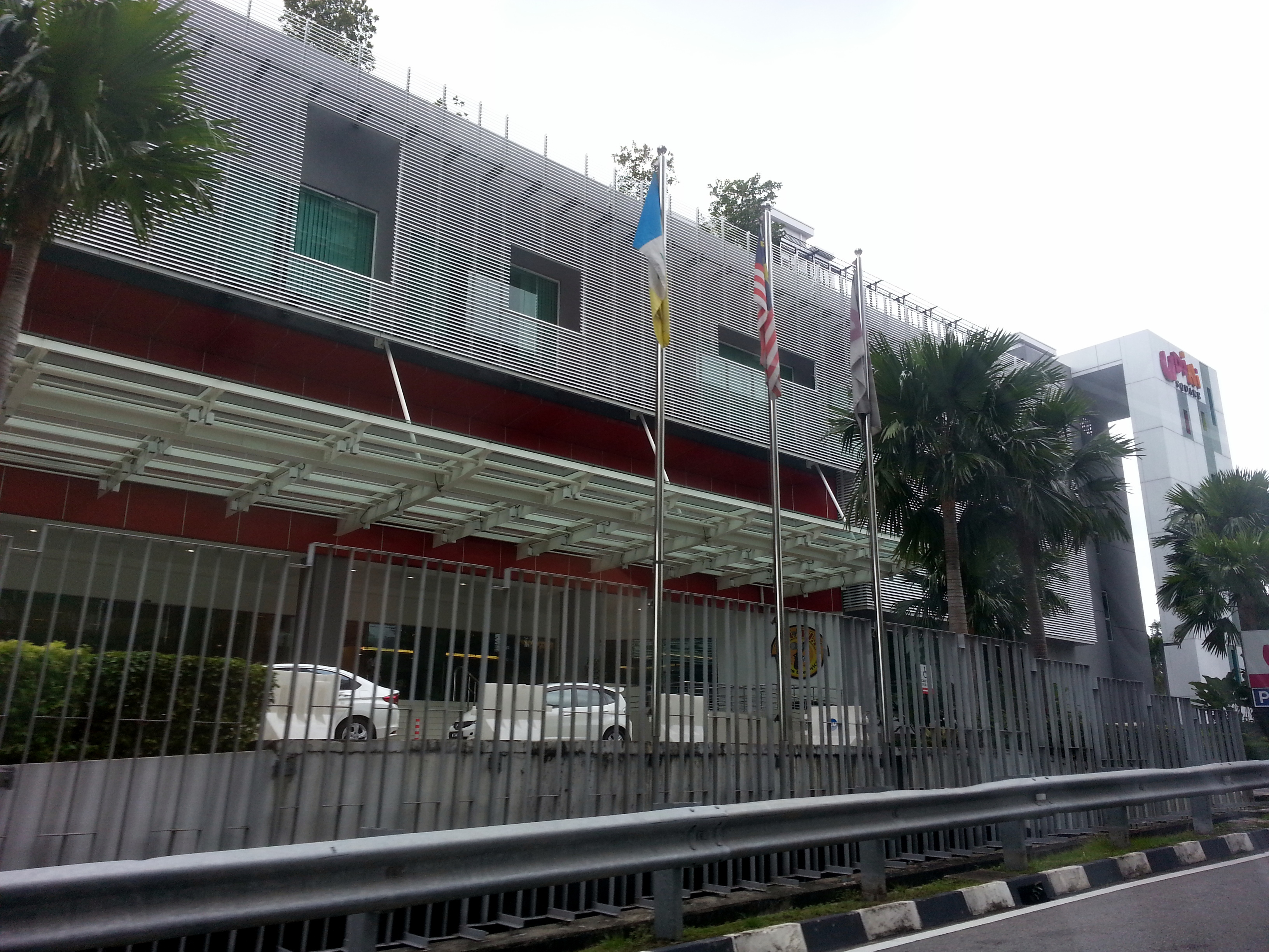 Udini Square in Gelugor, George Town, Penang